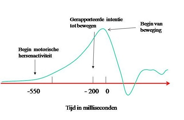 motor potential